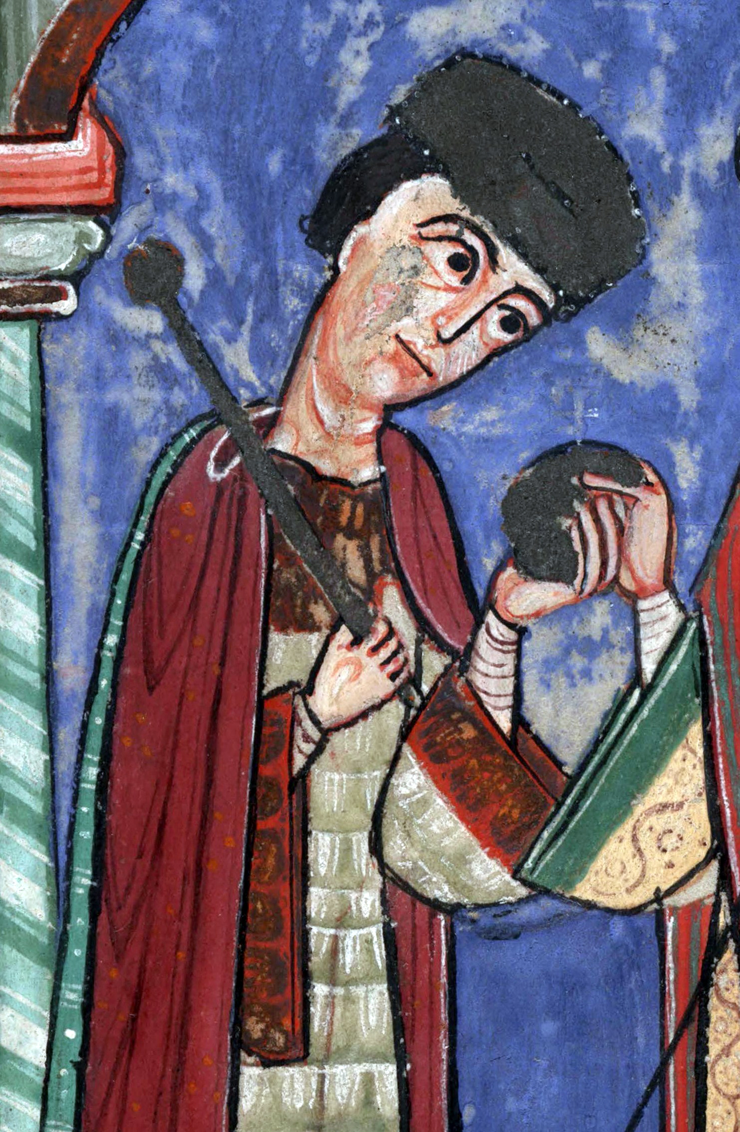 Henry V, Holy Roman Emperor.